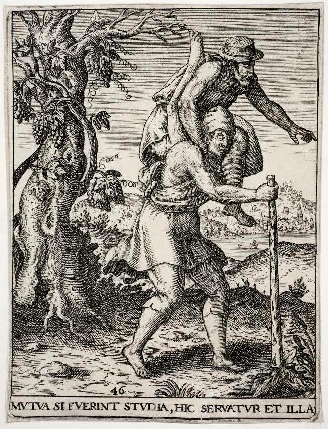 The 46th emblem from Johann Theodor de Bry's Emblemata saecularia (1596), combining images of both the Blind Man and the Lame and the Elm and the Vine, with the theme of mutual support